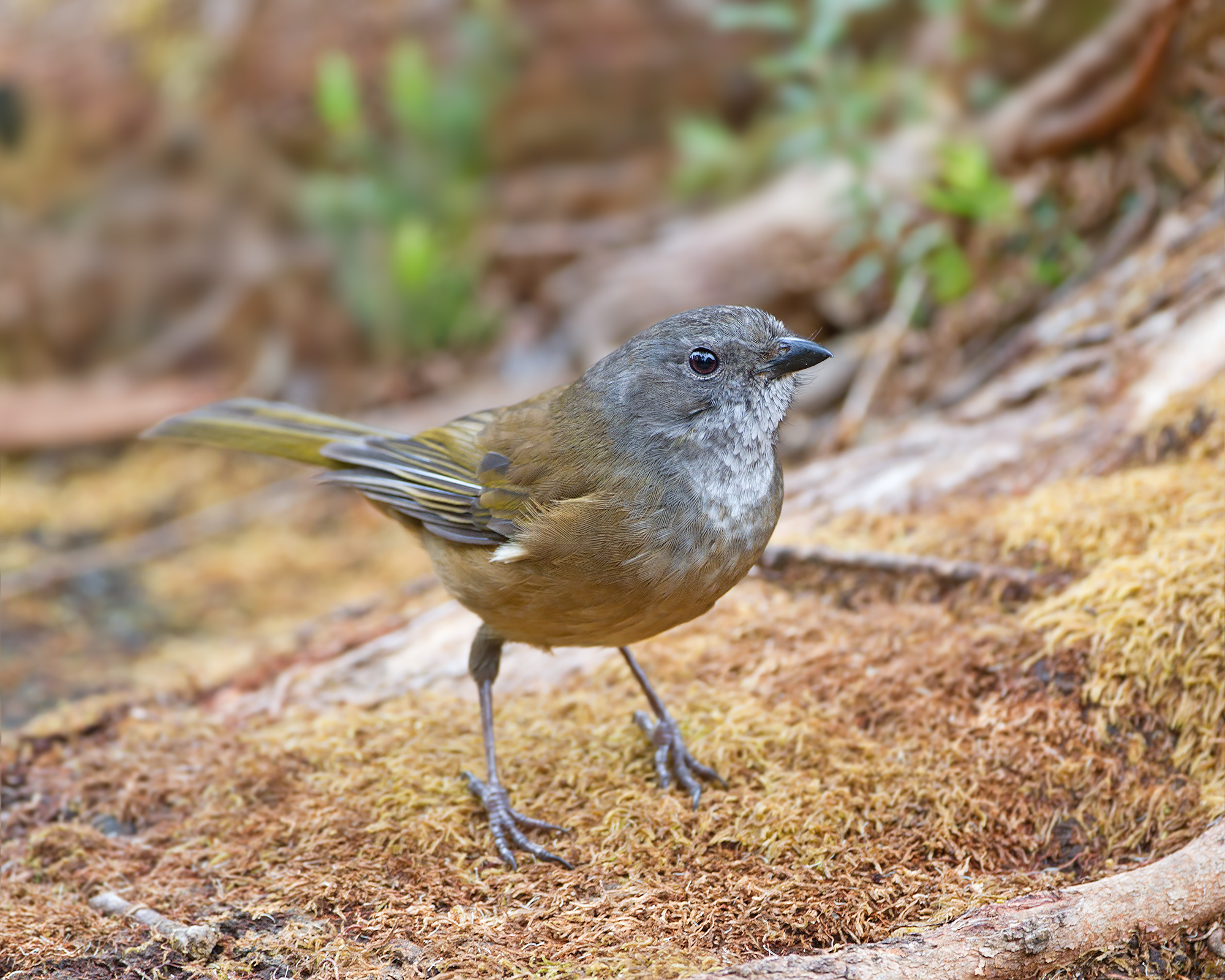 Olive Whistler (Pachycephala olivacea), Melaleuca, Southwest Conservation Area, Tasmania, Australia